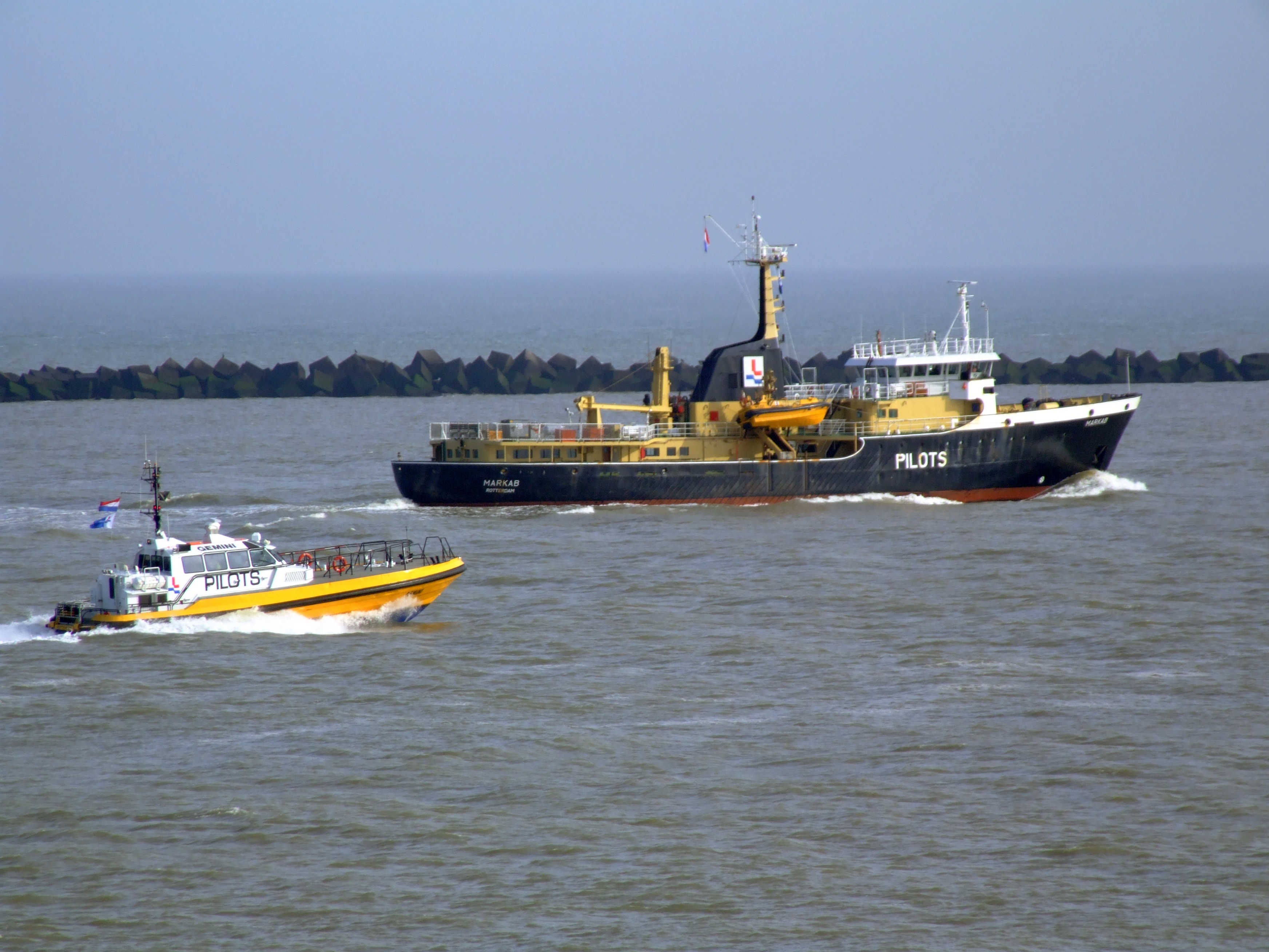 Markab at Port of Rotterdam.